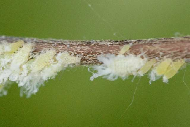 Phyllaphis fagi from Commanster, Belgian High Ardennes .